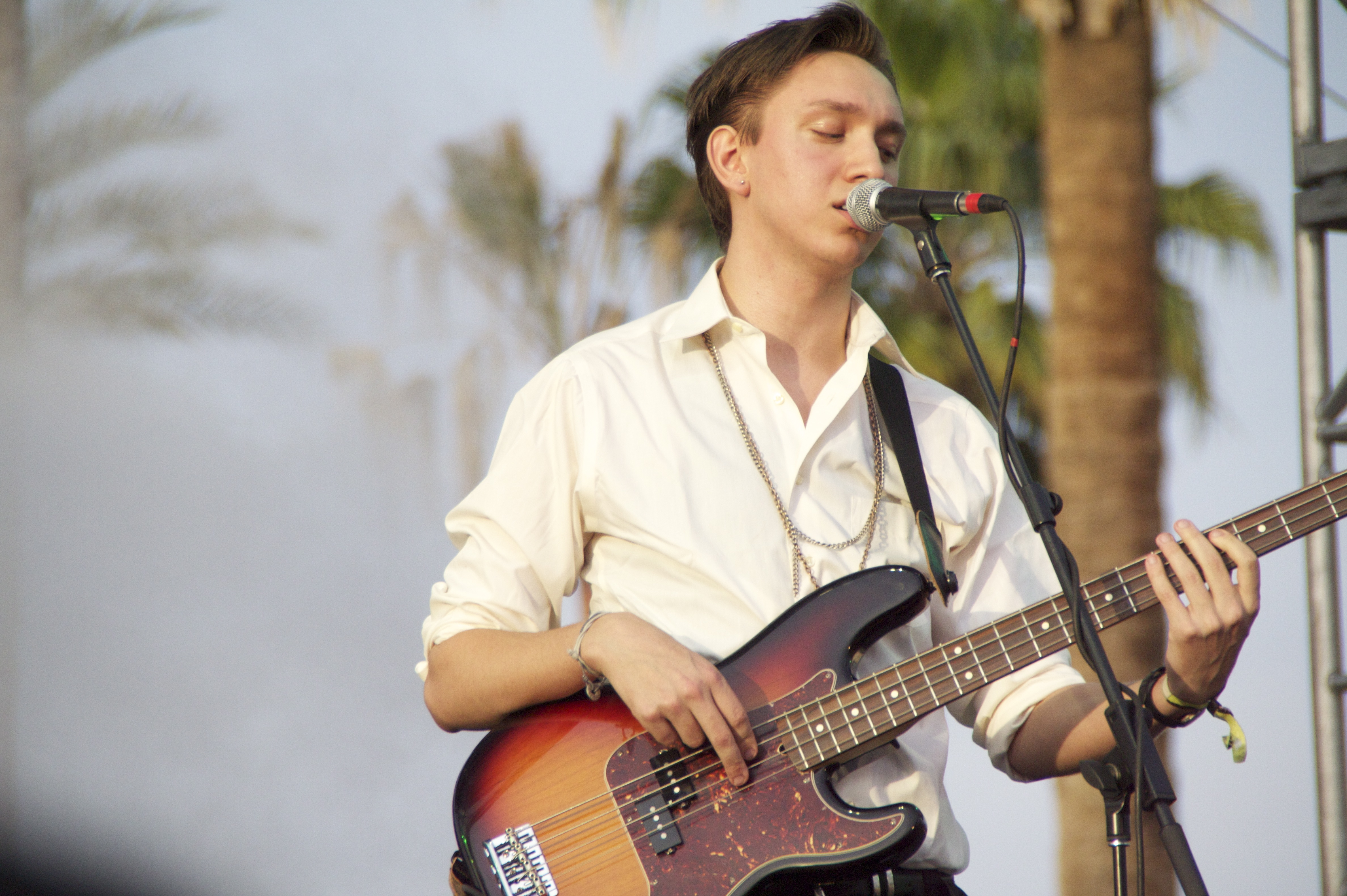 The XX perform at Coachella 2010. Top 5 of Coachella 2010.